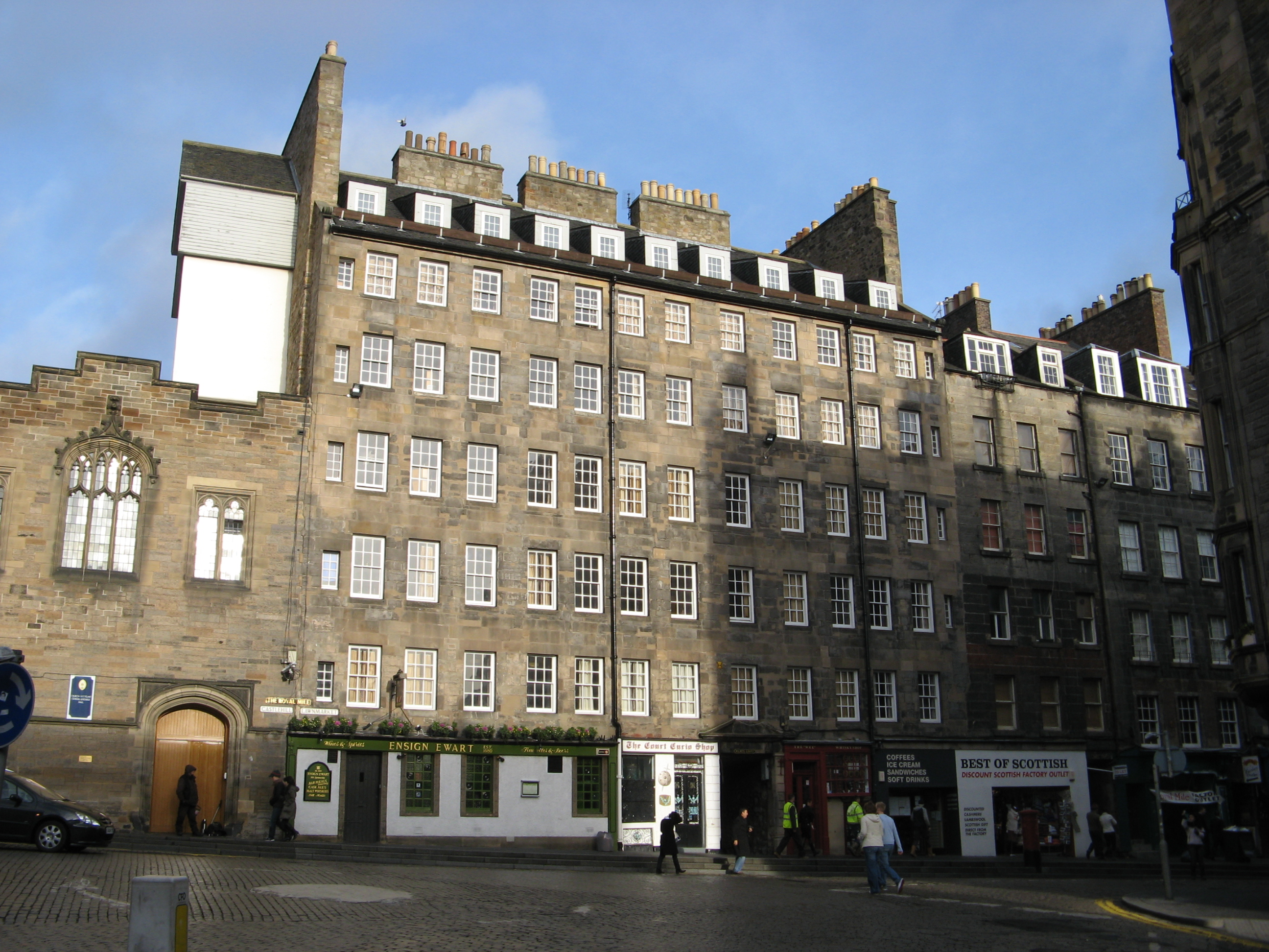 Mylne's Court, Edinburgh, on the Royal Mile. Built by Robert Mylne (1633-1710), now student housing.